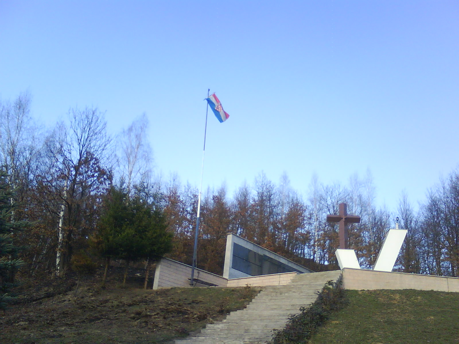 Monument in a tribute of victims from Križančevo selo killings,a war crime comitted over Croats by Bosniak troops